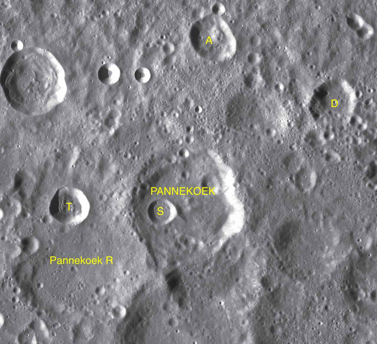 Part of the chart LAC-84 used for the presentation